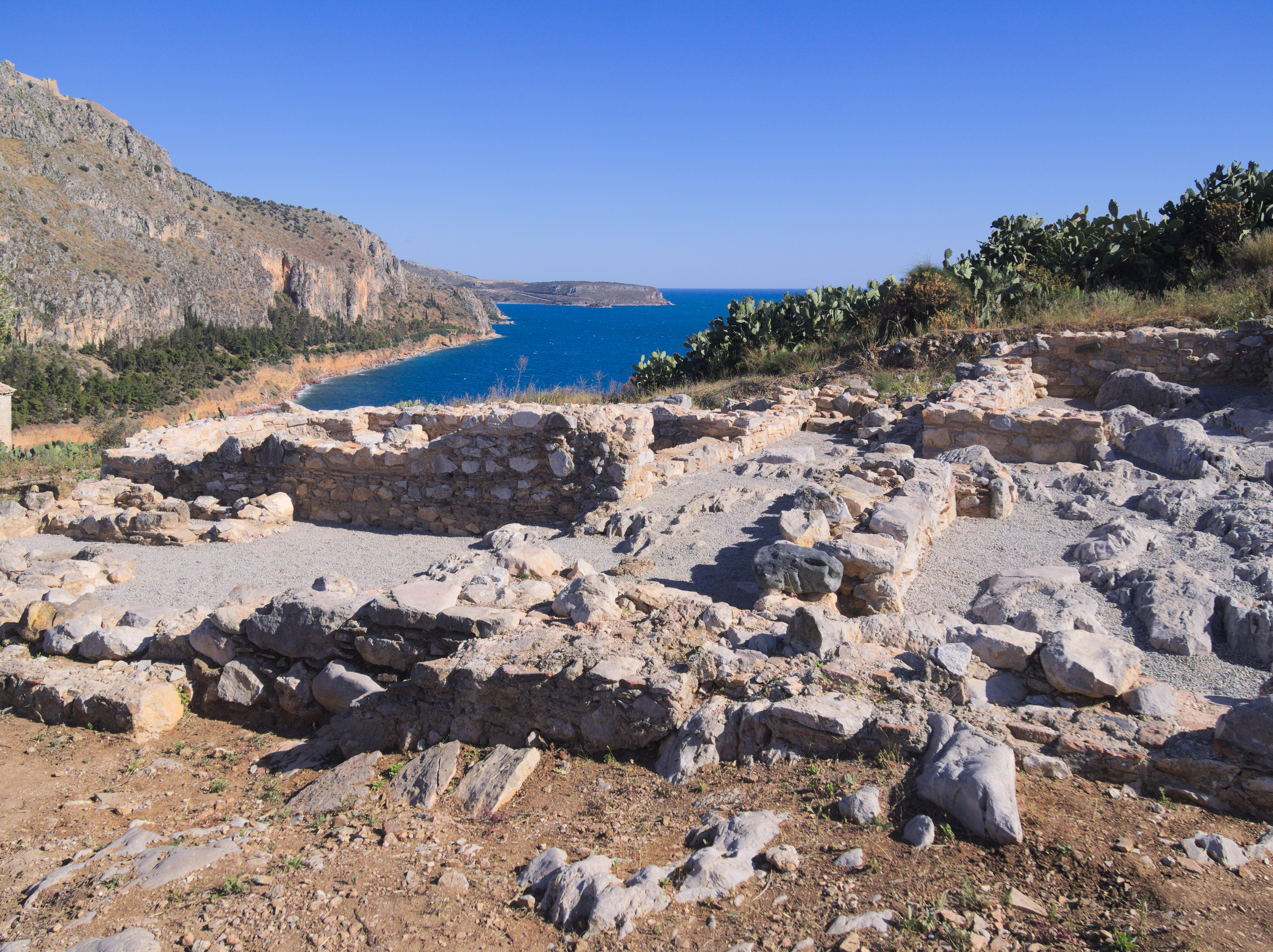 The ruins of the byzantine church of Ayioi Theodoroi, Acronafplia. This is a photography of Natura 2000 protected area with ID GR2510003